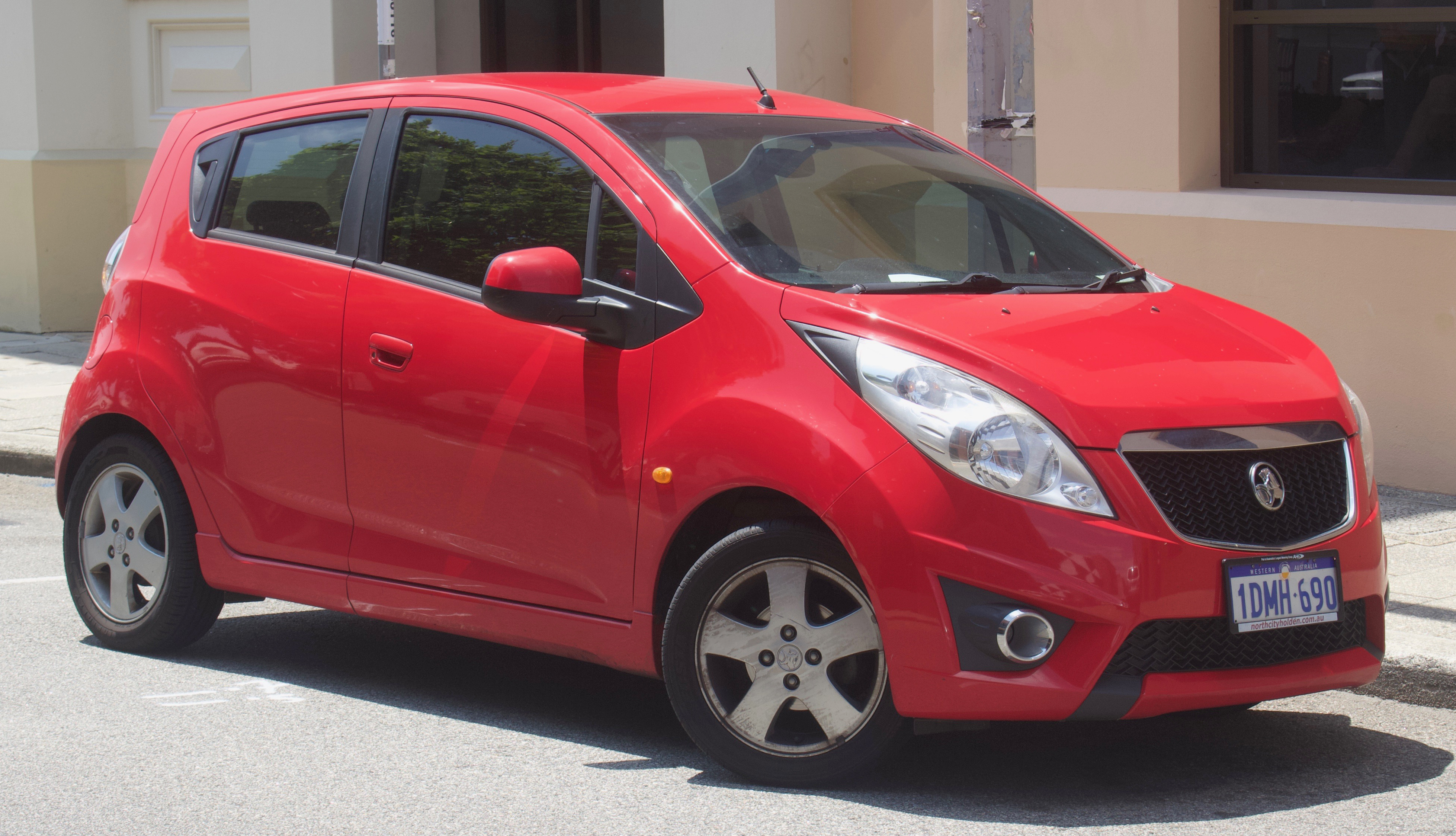 2011 Holden Barina Spark (MJ MY11) CDX hatchback. Photographed in Fremantle, Western Australia, Australia.